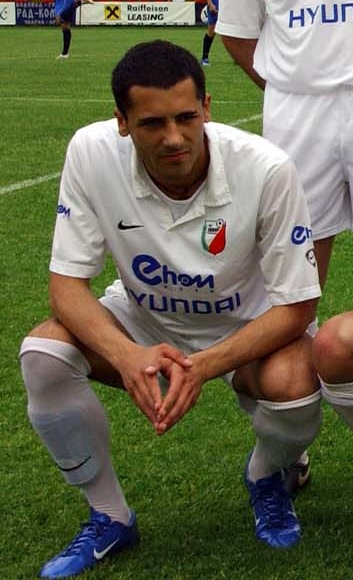 Milos Trifunovic with FK Javor in 2008. When this photo was uploaded the man in the picture was mistaken for Filip Arsenijevic